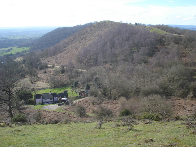 Swinyard Hill View south from Hangman's Hill with Pink Cottage below.